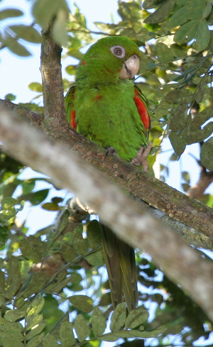 Cuban Parakeet, Conure De Cuba, or Aratinga Cubana (Aratinga euops). Two parrots in a tree.